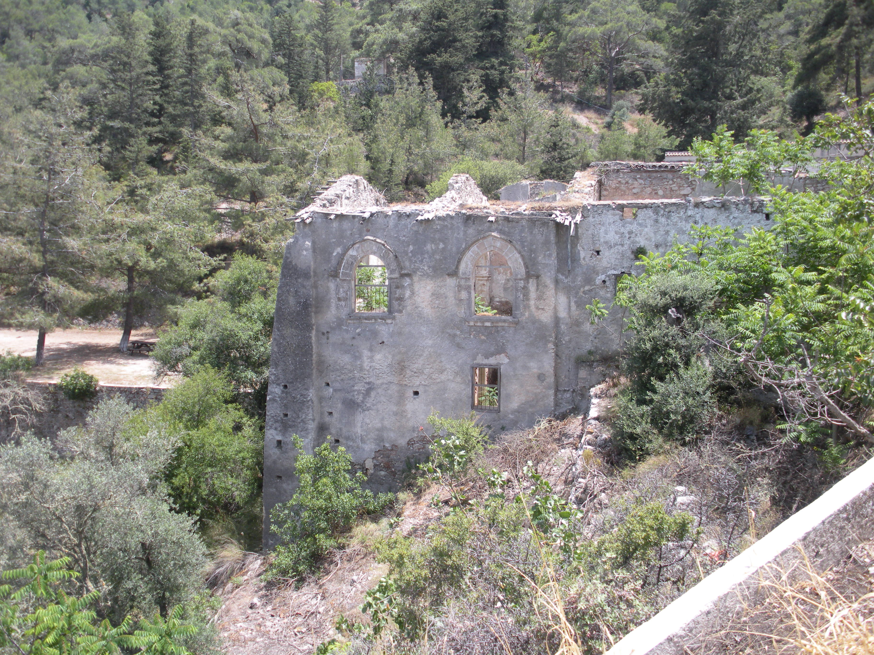 Sourp Magar, Cyprus. View of the residential building from the north, probably first constructed in the mid-15th century